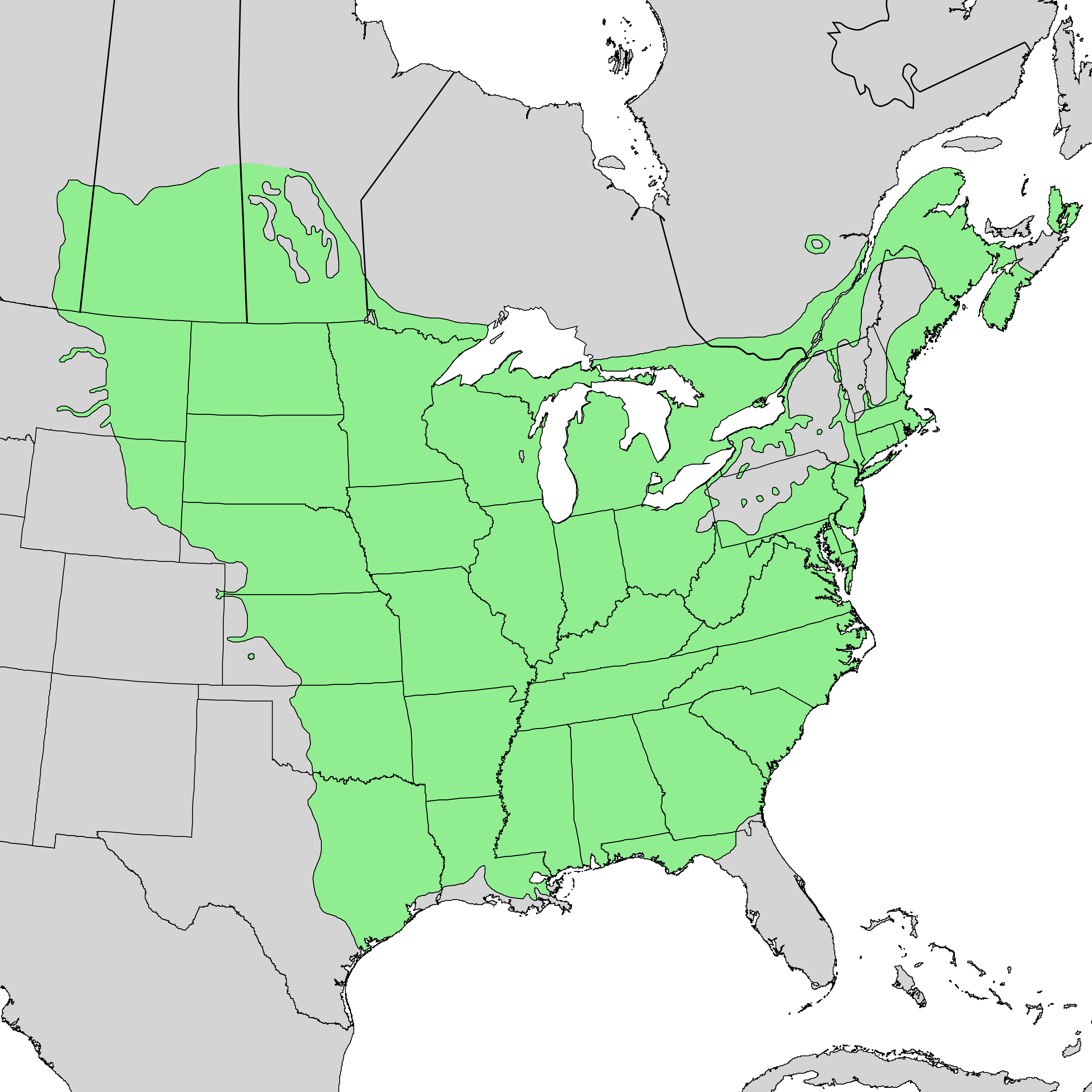 Natural distribution map for Fraxinus pennsylvanica (green ash)